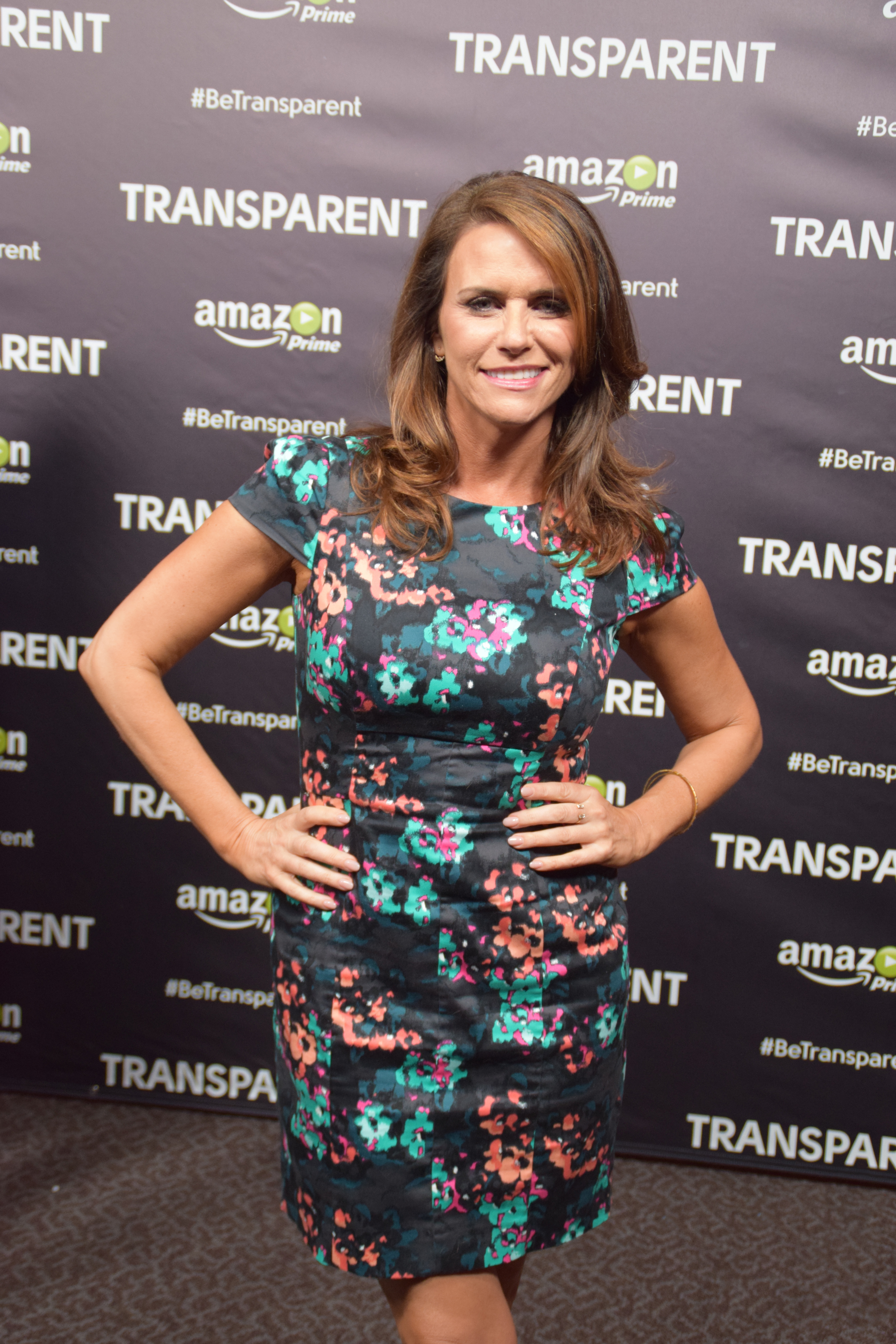 Actress Amy Landecker at the Amazon Transparent FYC Event Screening